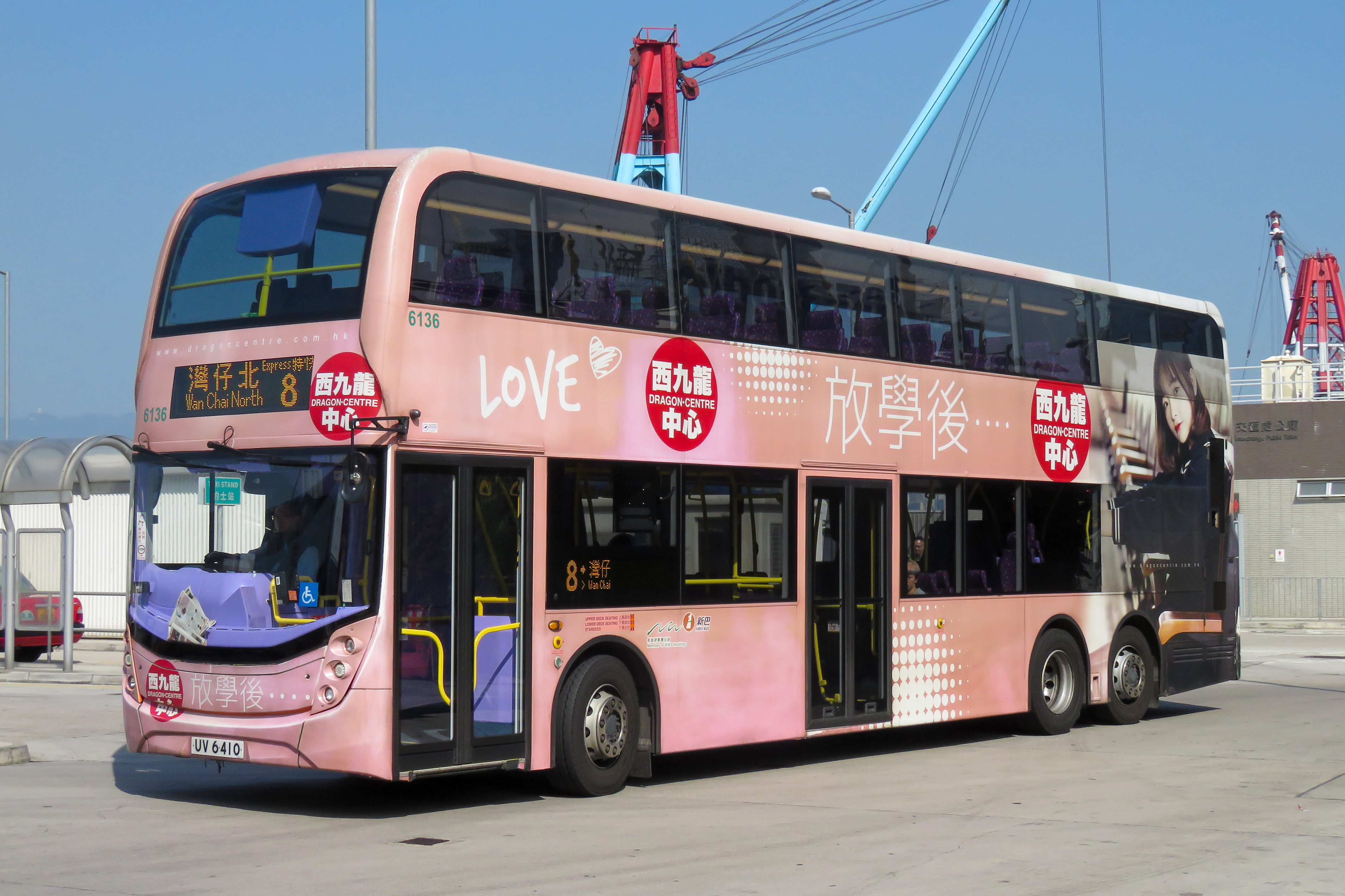 Here comes the "After School" advertisement of Dragon Centre, featuring a schoolgirl in sailor dress.